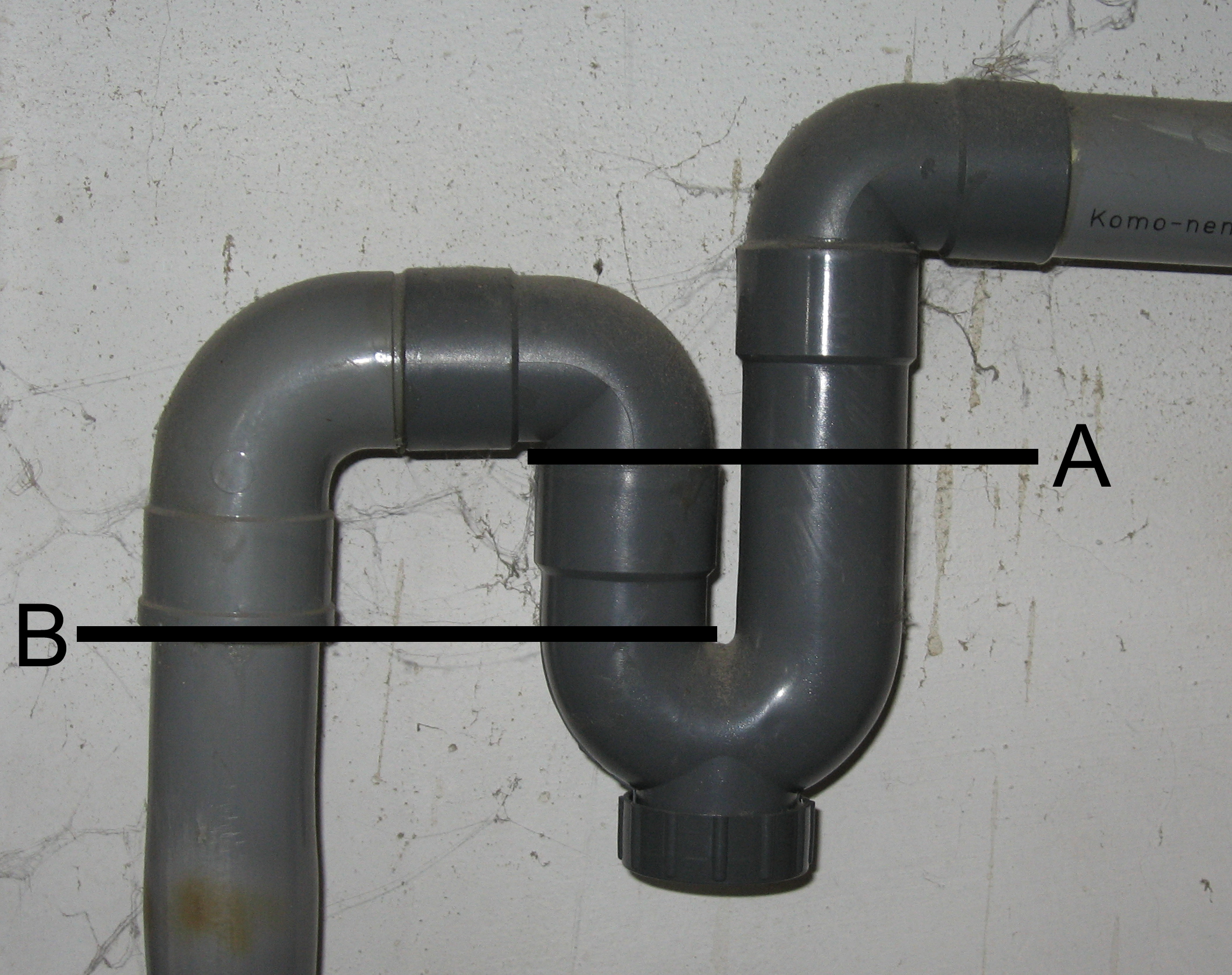 A plumbing "trap", with annotated A and B markers.